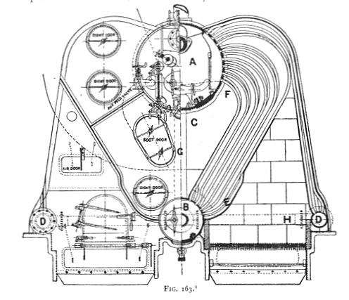 Fig. 163 Thornycroft boiler, end section